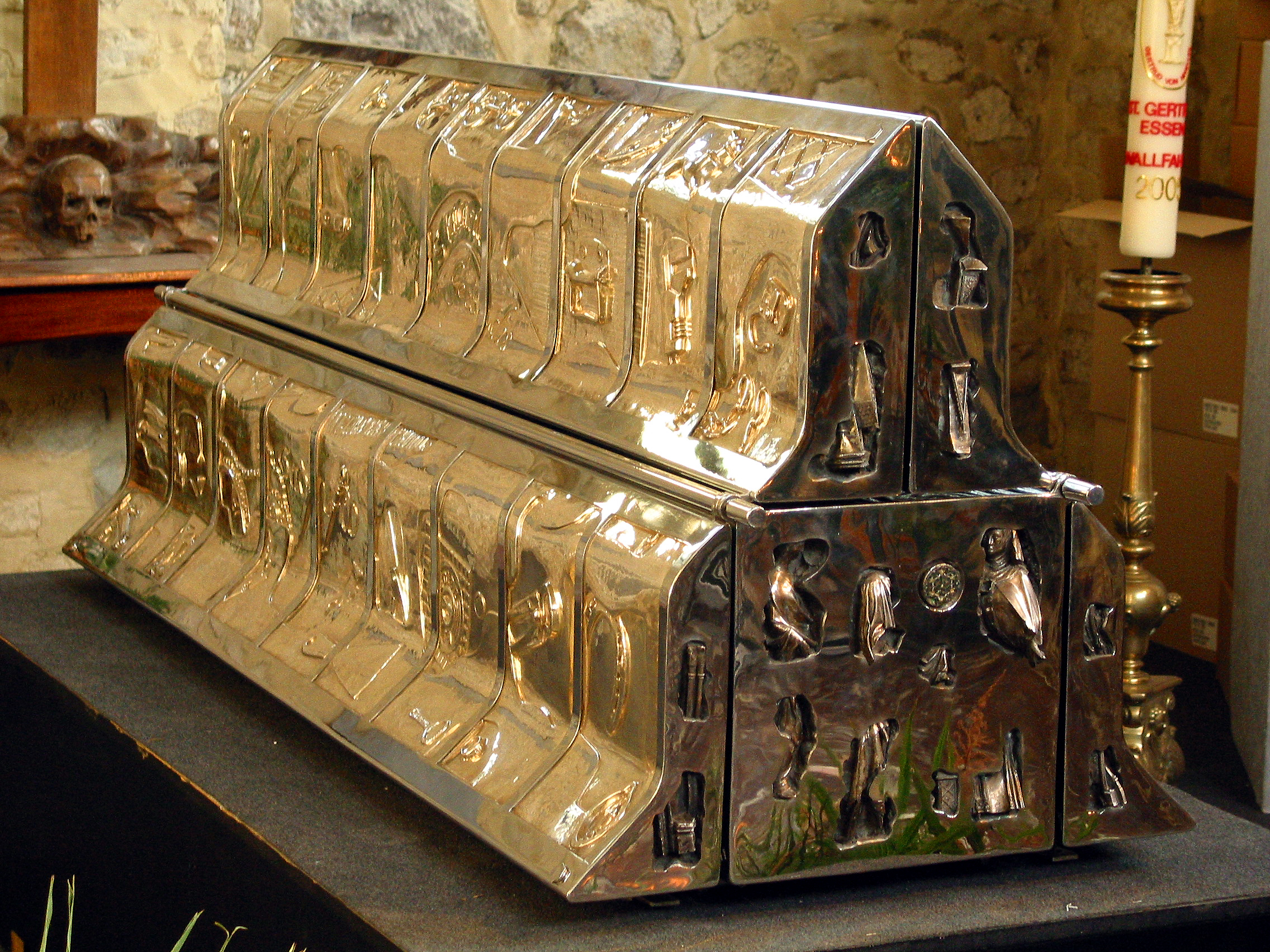 Nivelles (Belgium), new Saint Gertrude shrine which were set inside fragments of the ancient shrine destroyed by bombs in 1940. Walon: Nivèle (Bèljike), novèle châsse di Sinte-Djèrtrude dins l'kêne on z’a stitchè dès bokèts di l’ancyin.ne châsse dtistrûte dins lès bombardemints di 1940.